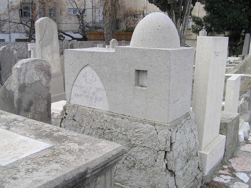 An tomb in Trumpeldor cemetery in Tel Aviv, shaped like Rachel's tomb photographed by Eman, February 2006